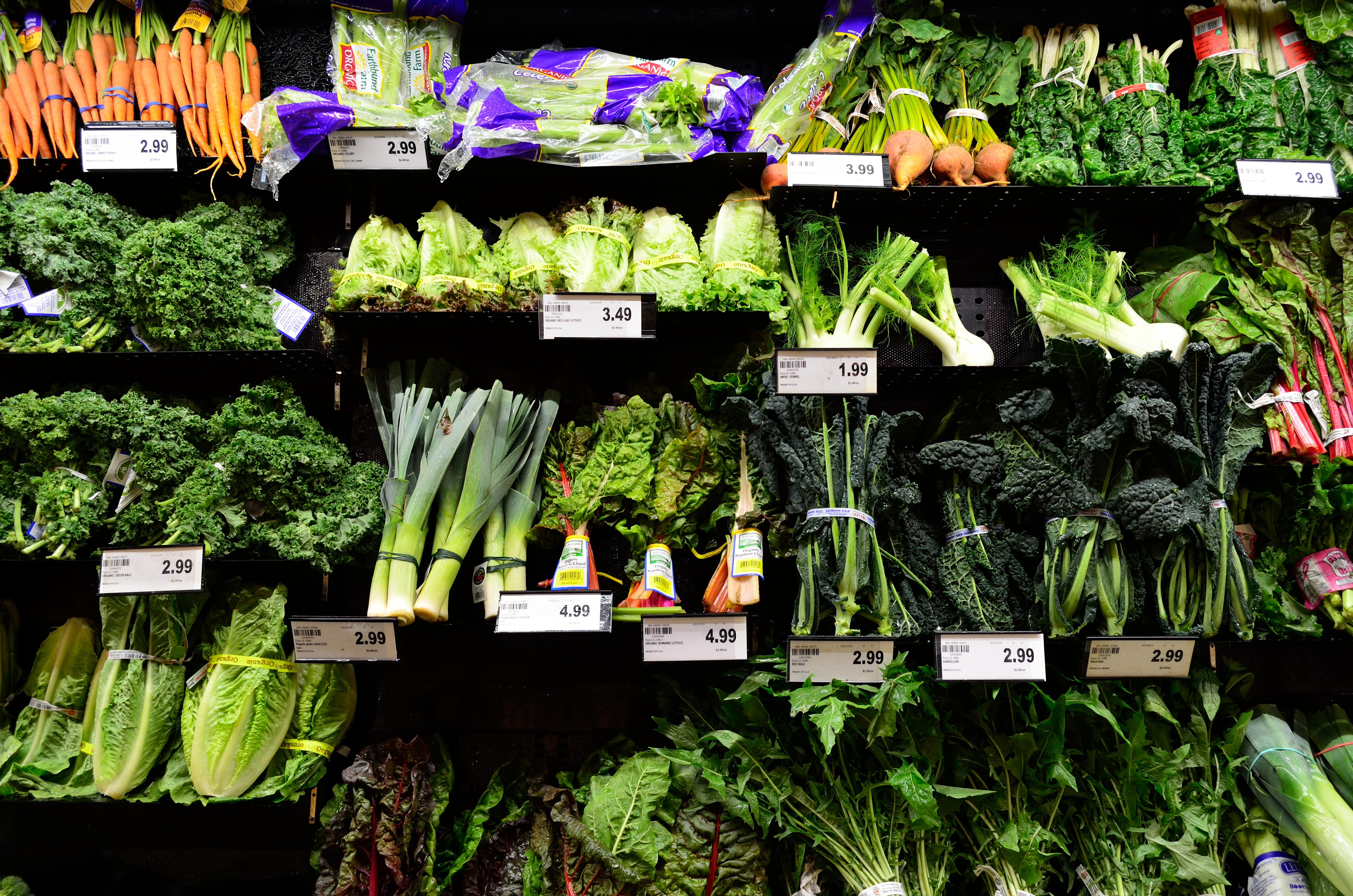 Vegetables in a supermarket.